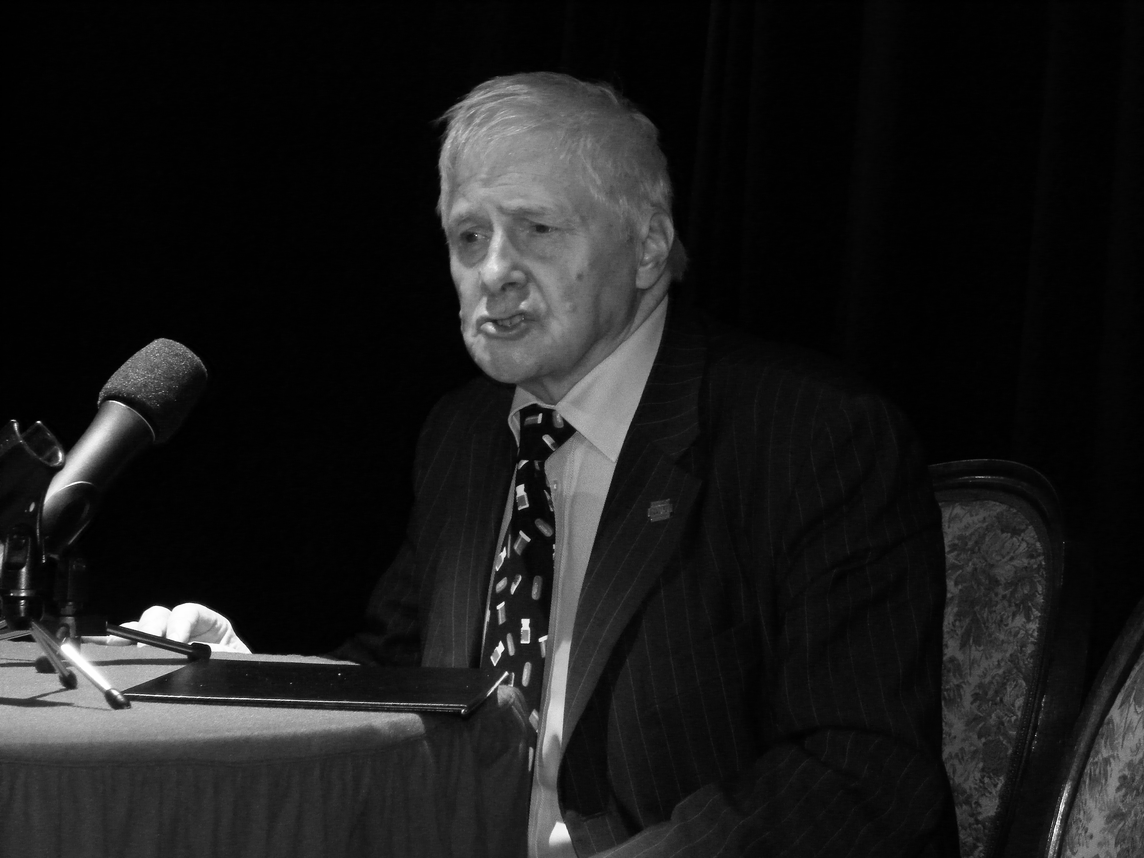 Jerzy Vetulani at the public discussion after receiving Kraków Book of the Month Award, Śródmiejski Ośrodek Kultury at Mikołajska Street.